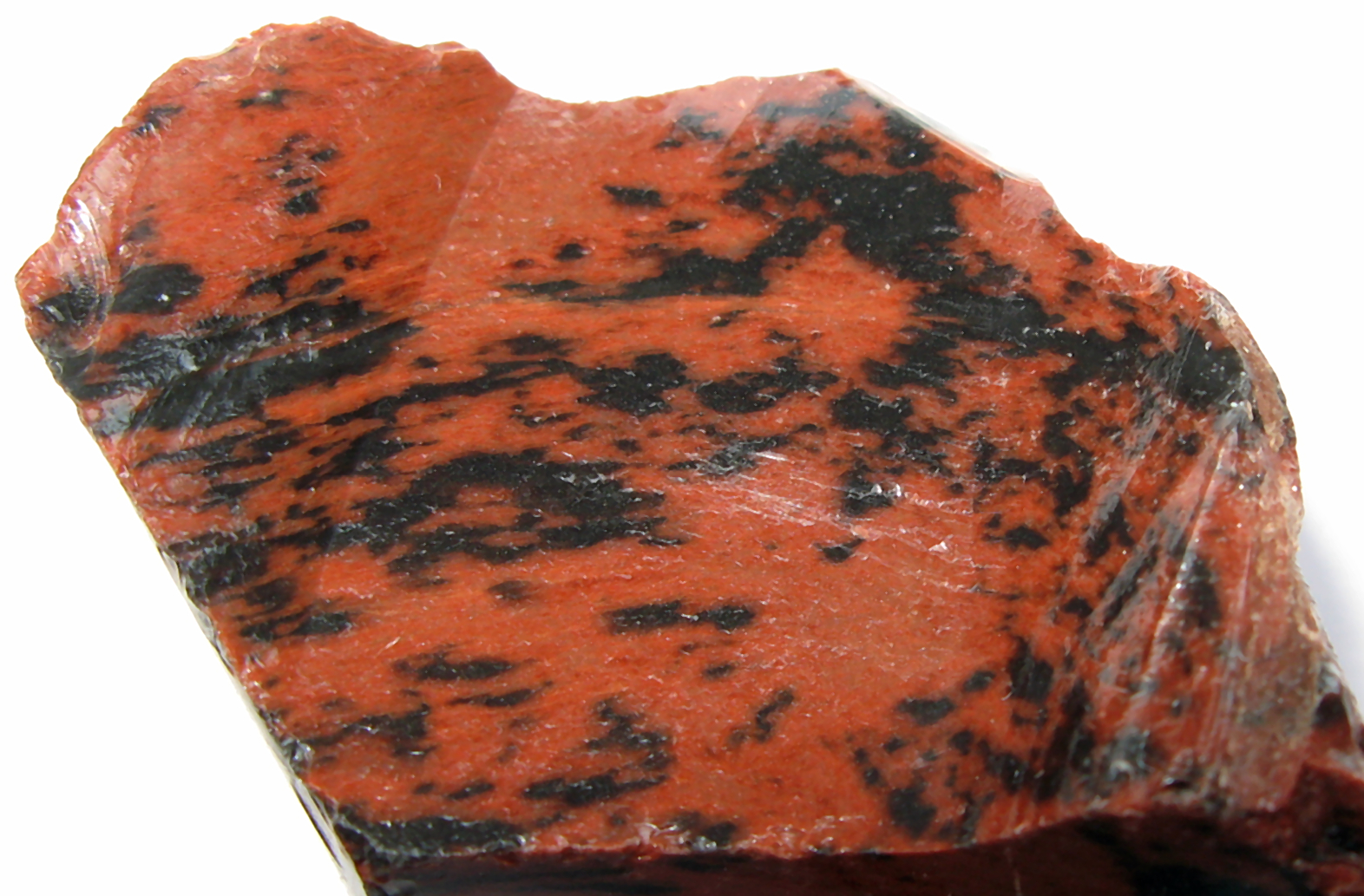 Mahagoni-Obsidian aus Mexico